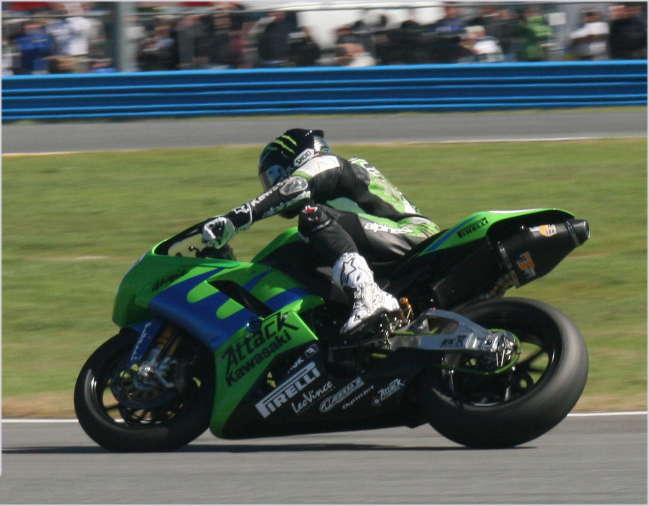 Chaz Davies, British motorcycle racer, at the 2008 Daytona 200